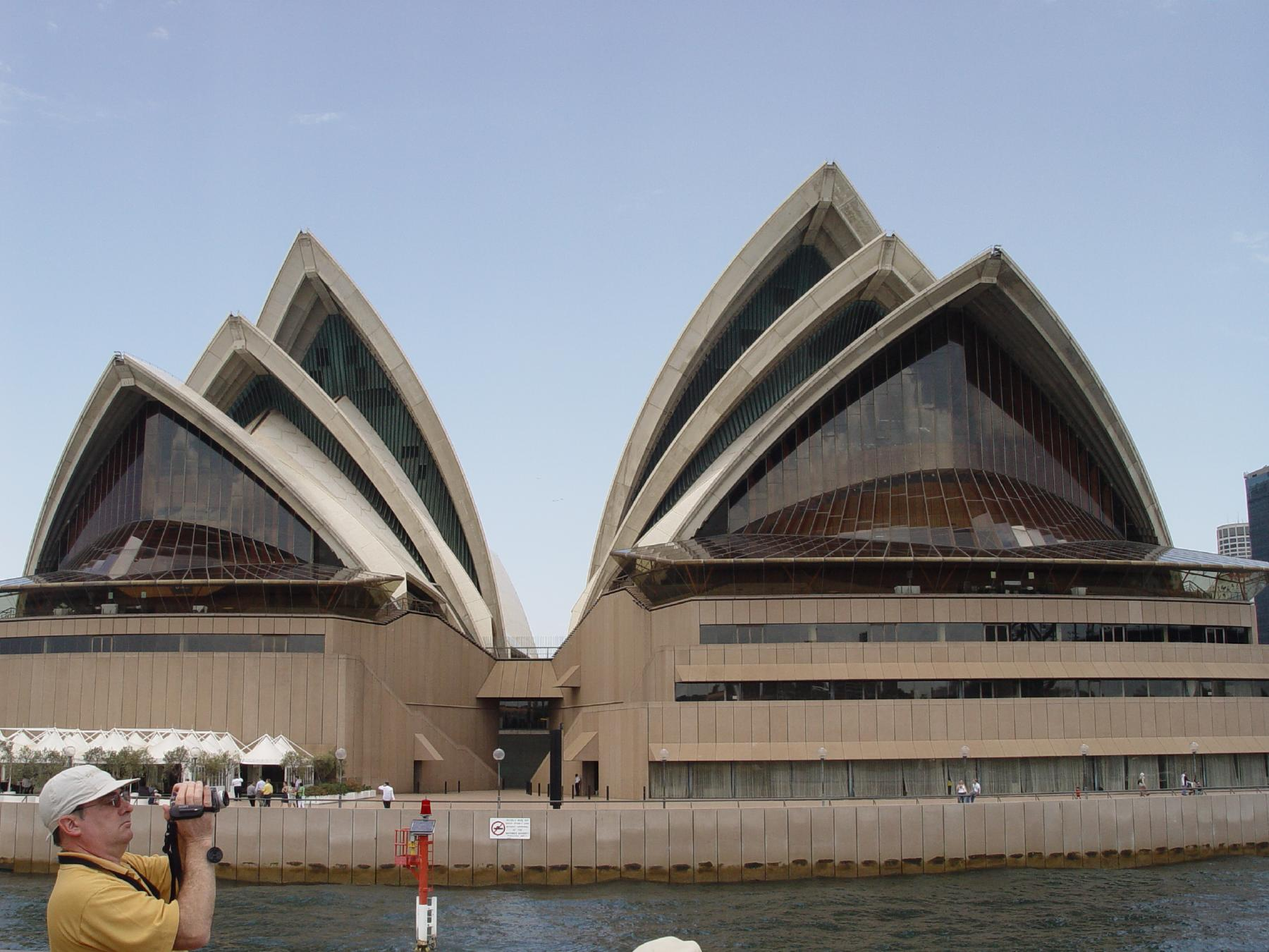 The opera of Sydney.